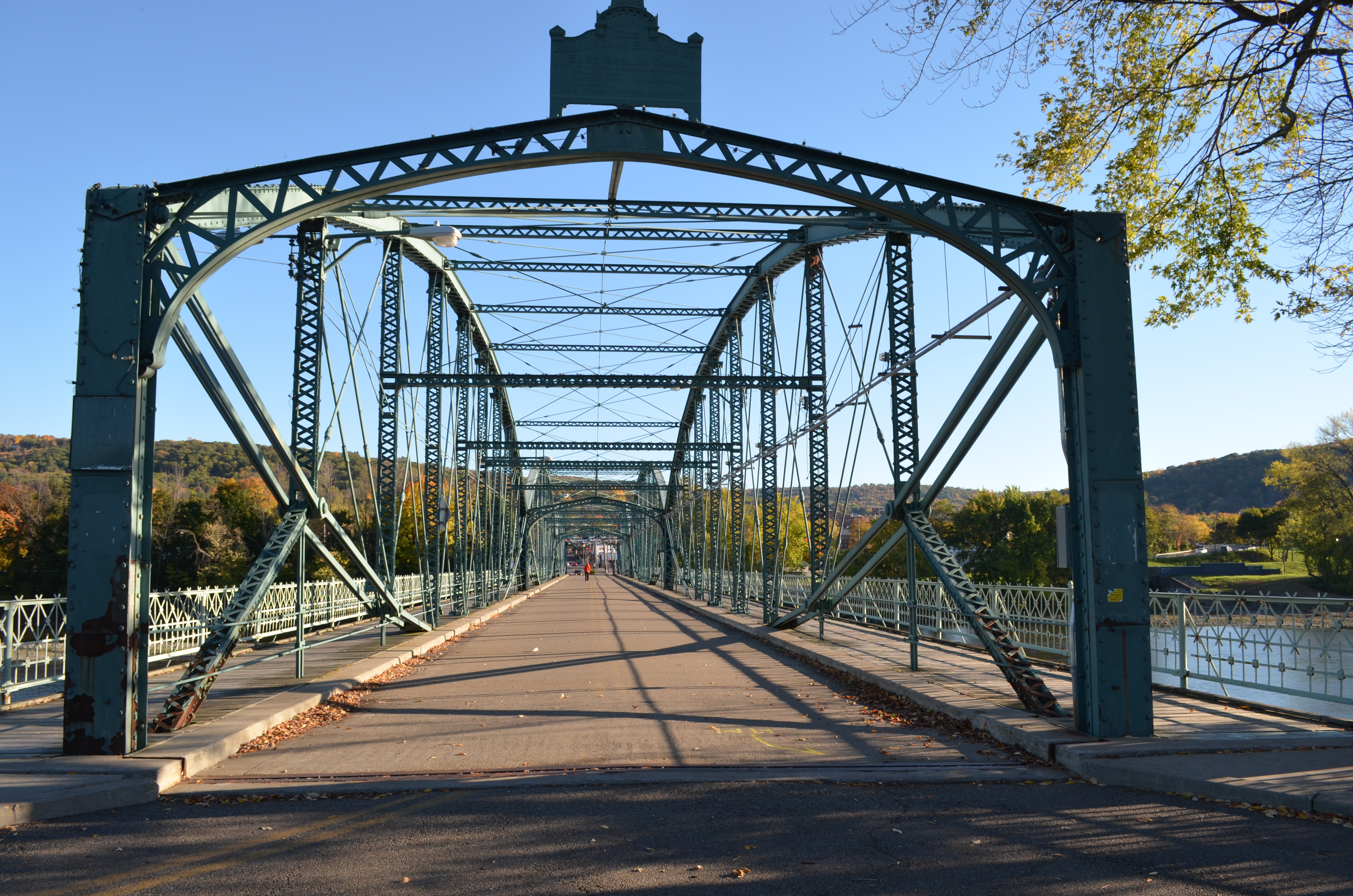 Washington Street Pedestrian Bridge in Binghamton, build by the Berlin Iron Bridge Co. Taken with a Nikon D5100.